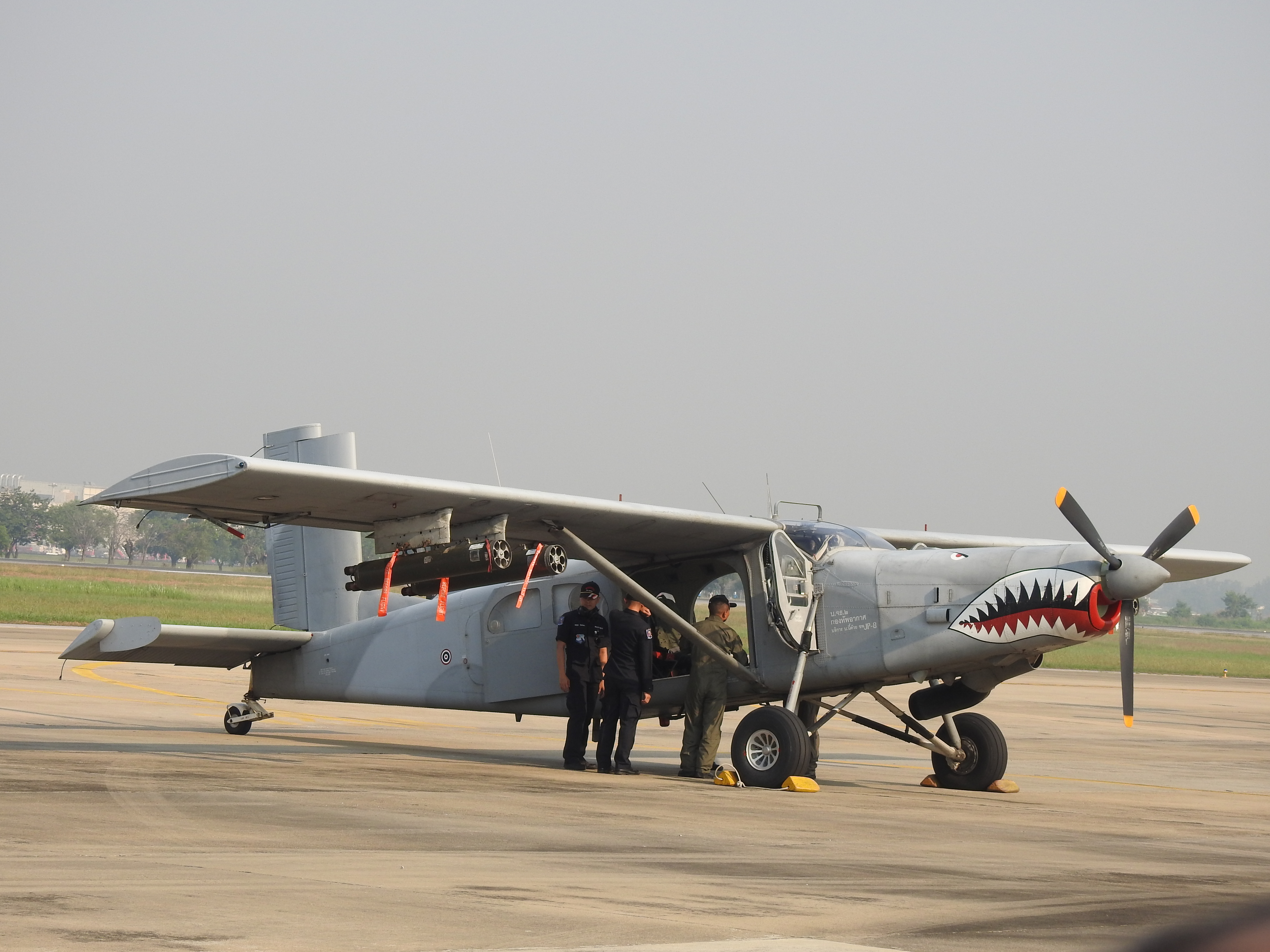 Children's Day of RTAF 2019